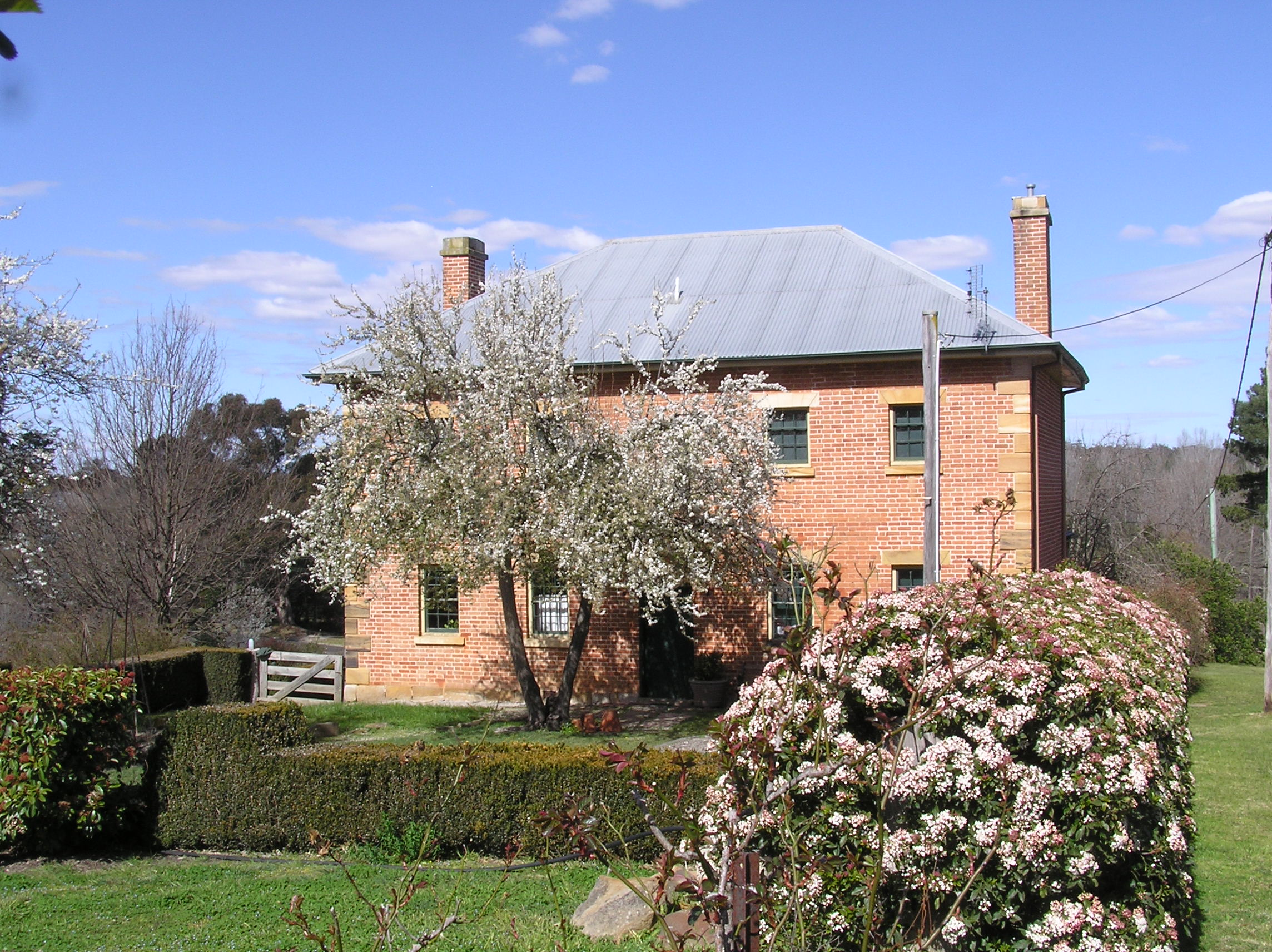 Harper's Mansion in Berrima New South Wales, rear